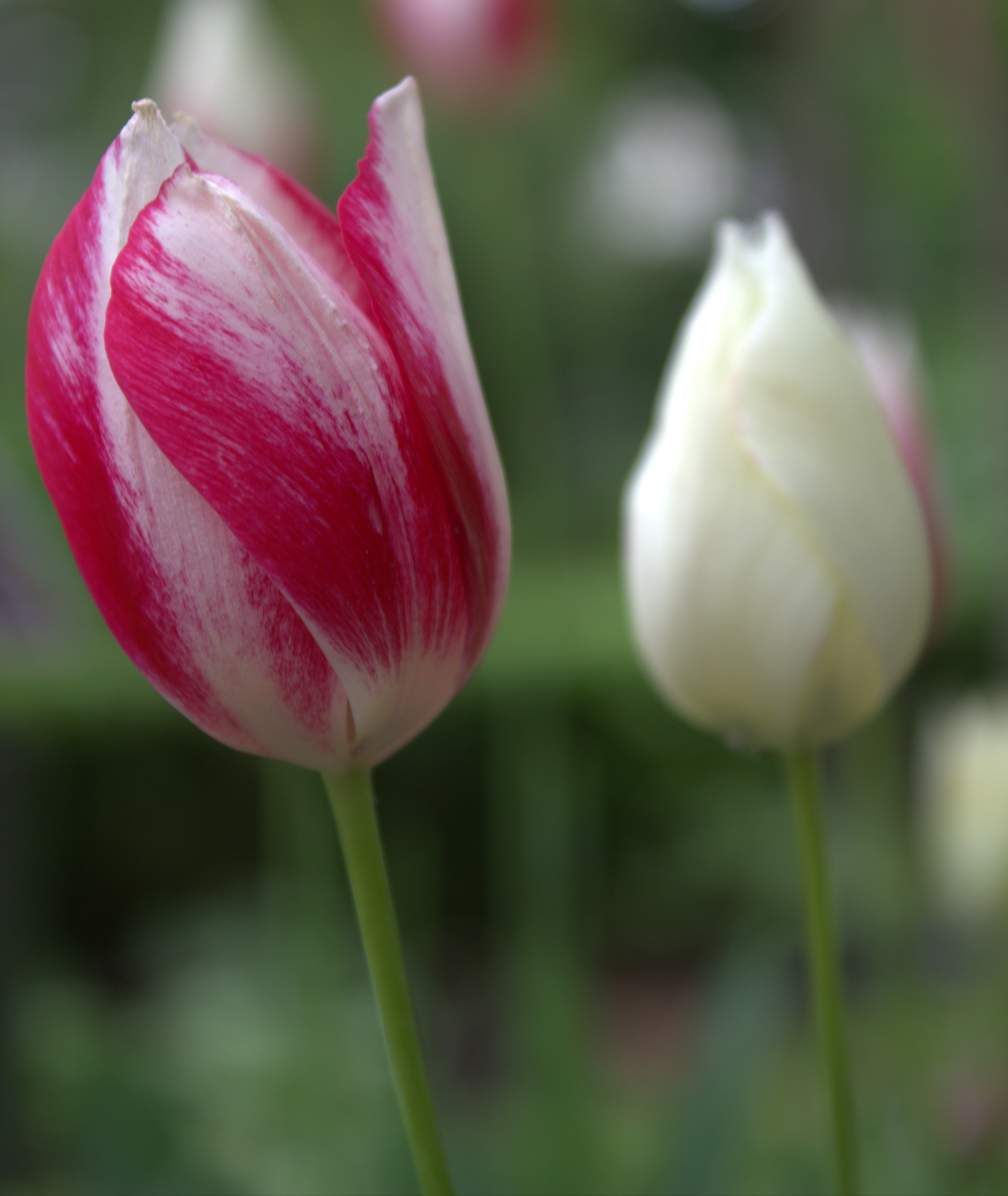 Tulipa marjolettii